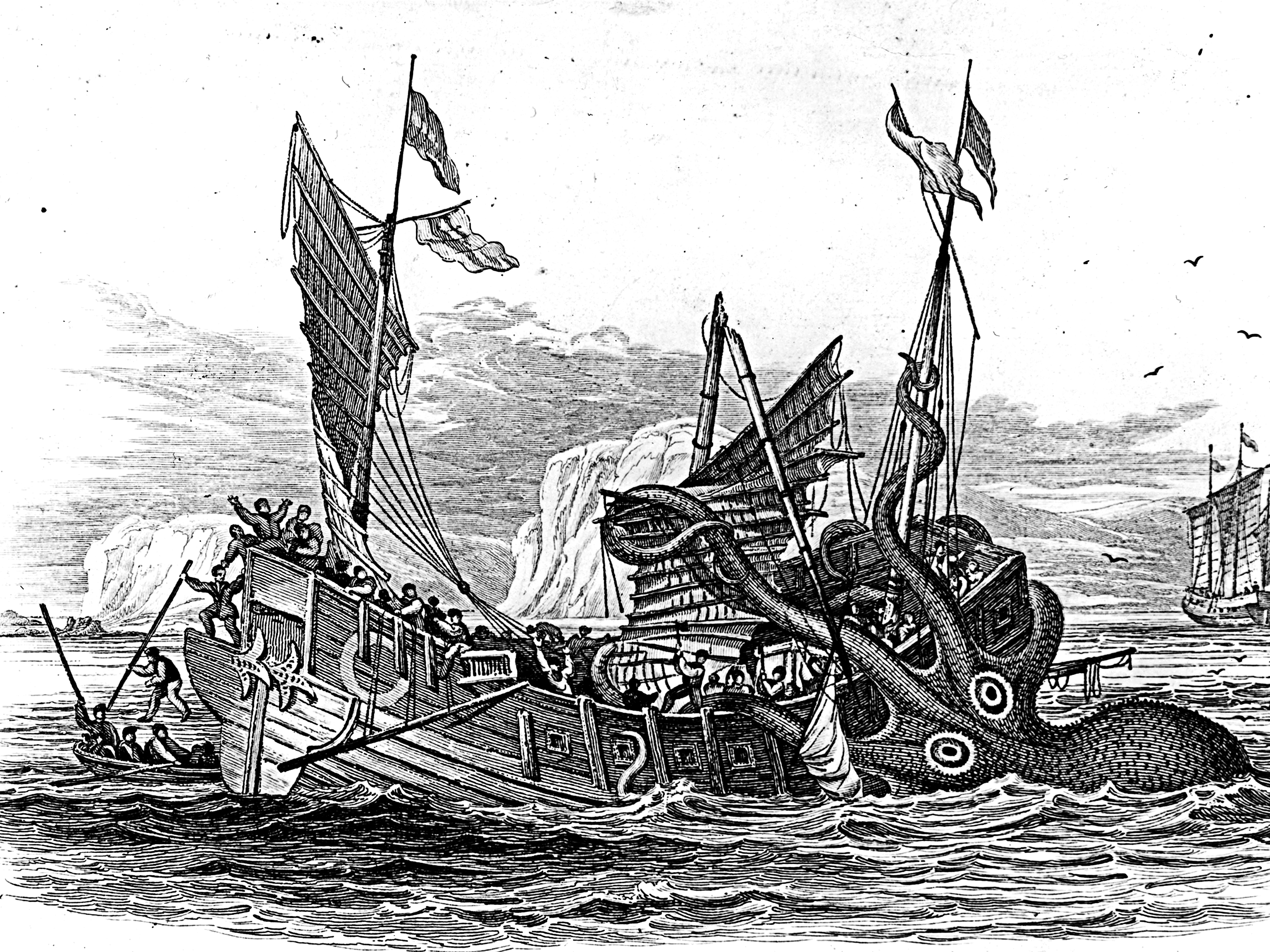 Pierre Denys de Montfort's Poulpe Colossal attacks a merchant ship.